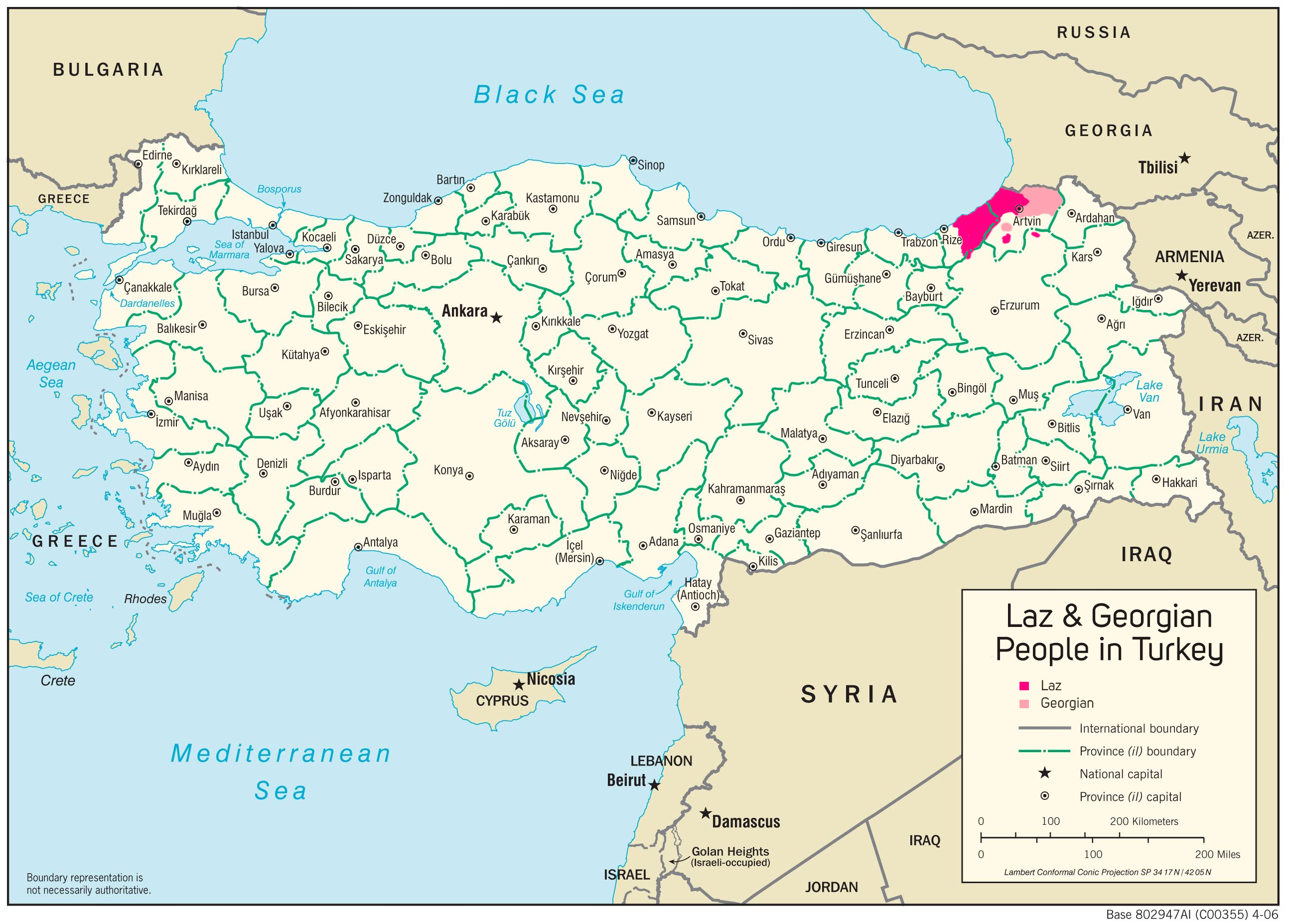 Laz and Georgian People in Turkey